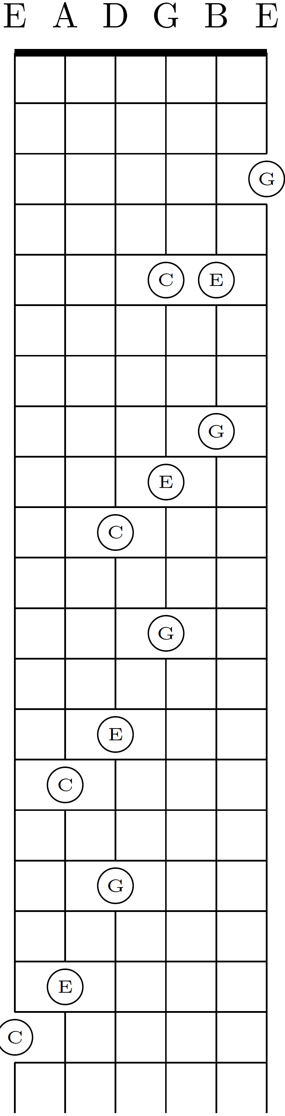 A C major chord is shifted down the fretboard of a six-string guitar tuned in standard tuning E-A-D-G-B-E. The diagram shows the three shapes of the chord, a multiplicity caused by the irregular major-third interval interrupting the perfect-fourth intervals.